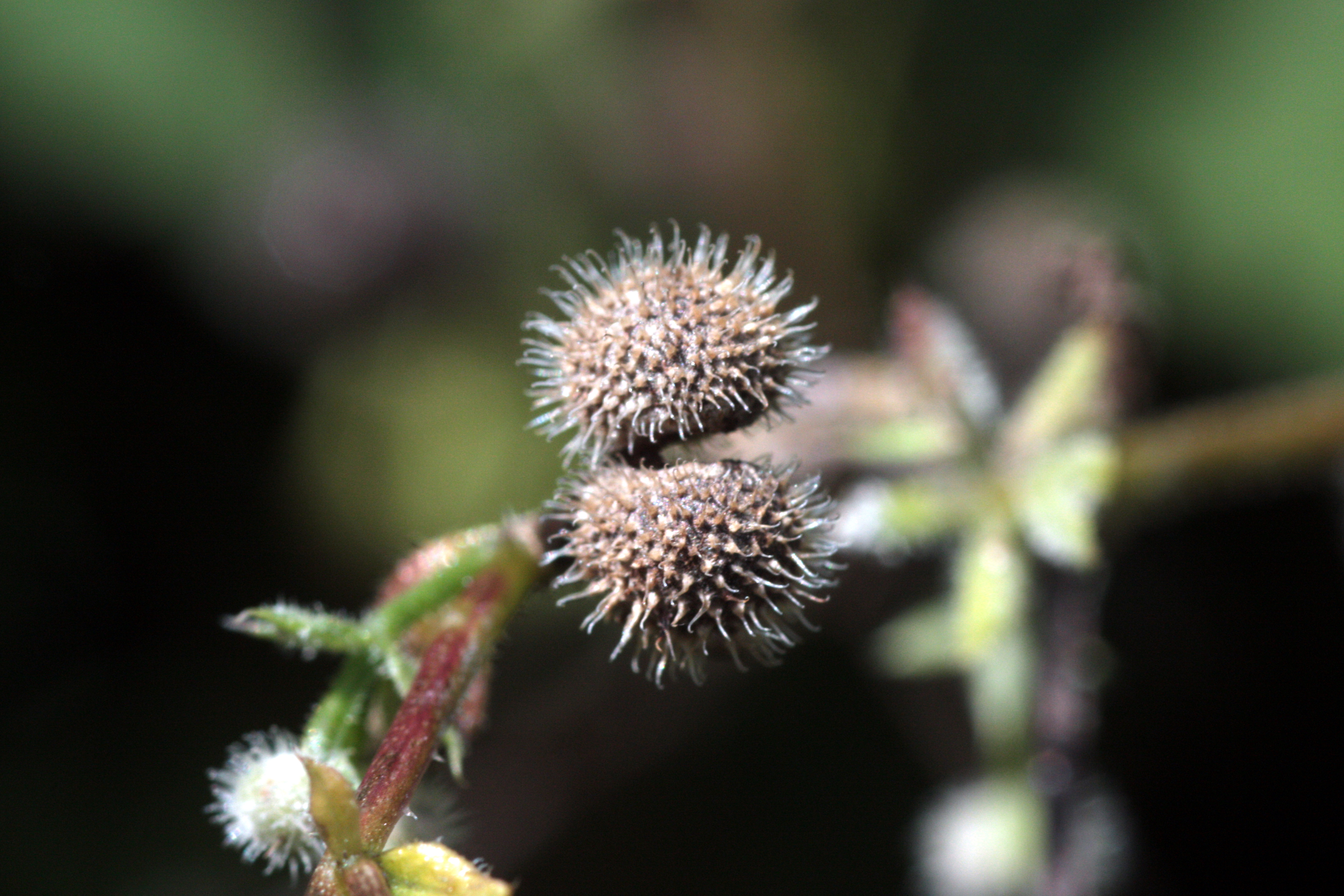 File:Galium spurium var. echinospermon